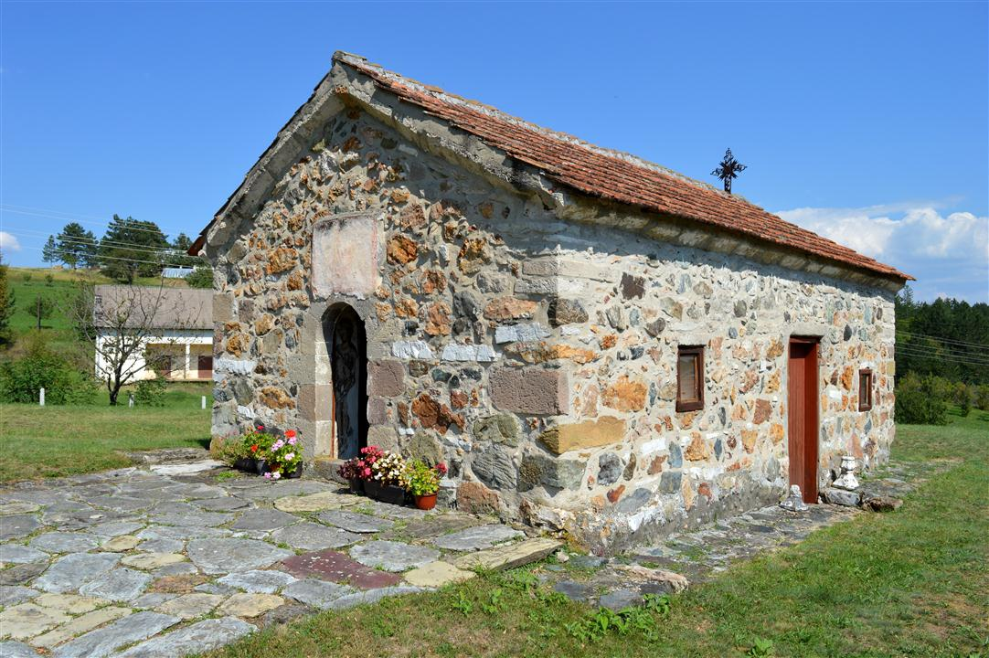 Raska Municipality - Church of St. Petka, Trnava